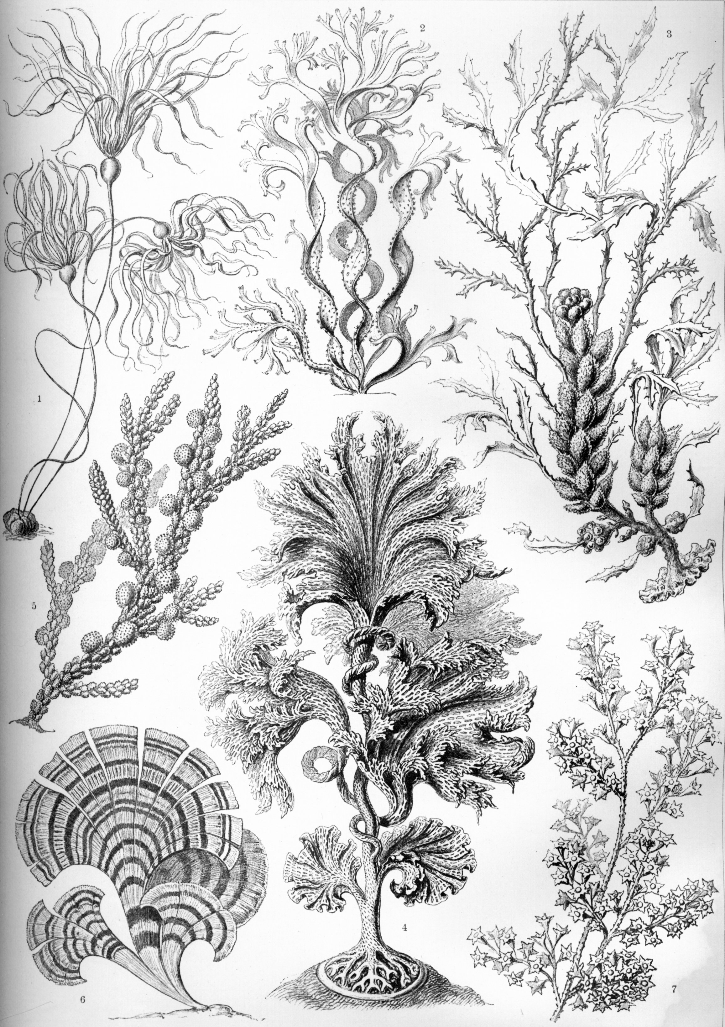 (top left): Nereocystis Lütkeana (Mertens) = Nereocystis luetkeana (K.Mertens) Postels & Ruprecht (top center): Cutleria multifida (Grey) = Cutleria multifida (Turner) Greville (top right): Cystosira erica (Naccari) = Cystoseira spinosa Sauvageau (bottom center): Thalassophyllum clathrus (Postels) = Agarum clathrus (S.G.Gmelin) Greville (center): Scaberia Agardhi (Greville) = Scaberia agardhii Greville (bottom left): Zonaria pavonia (Agardh) = Padina pavonica (Linnaeus) Thivy (bottom right): Turbinaria gracilis (Sonder) = Turbinaria gracilis Sonder